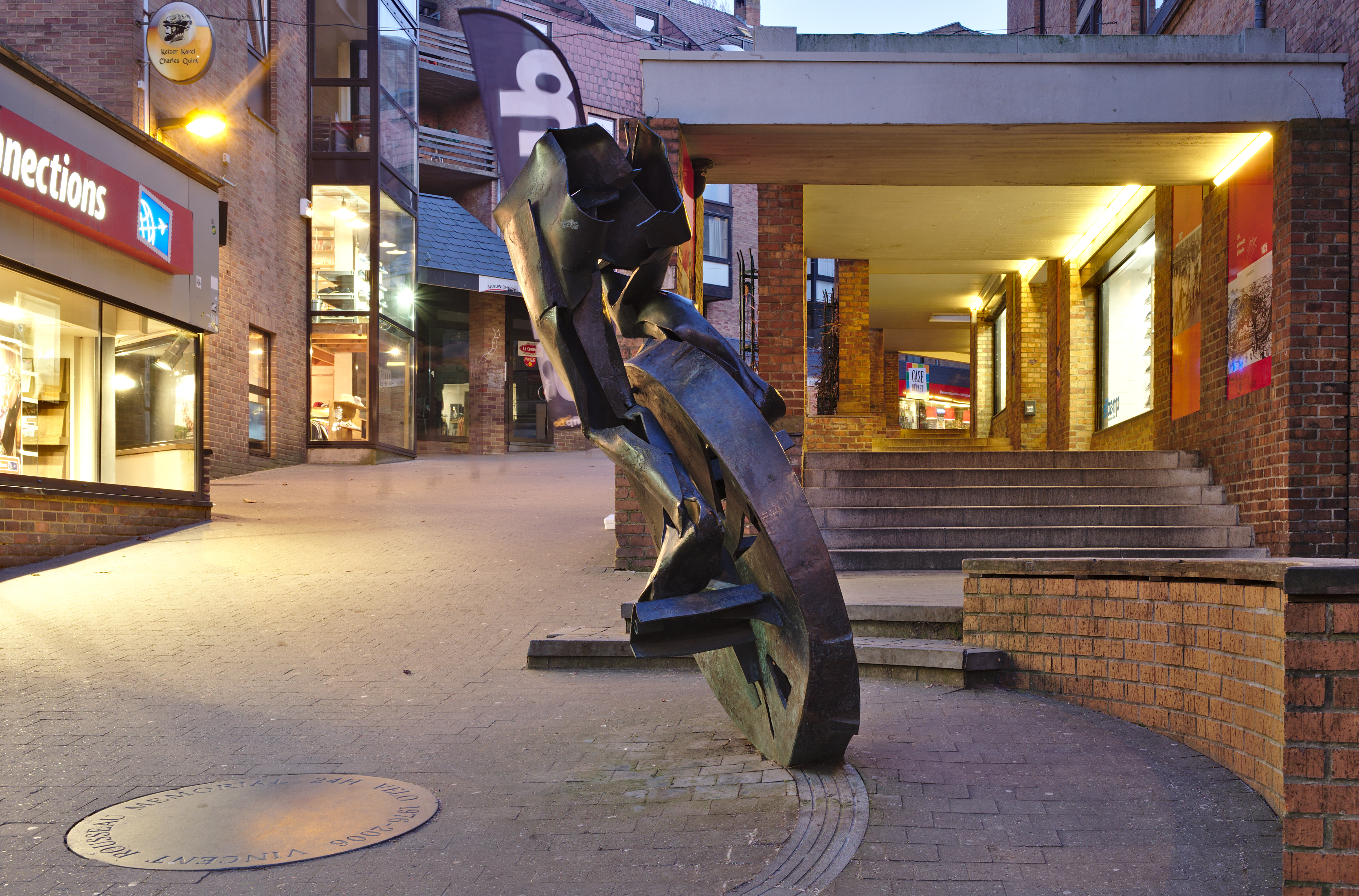 24 heures velo 30-years memorial by Vincent Rousseau in Louvain-la-Neuve, Belgium